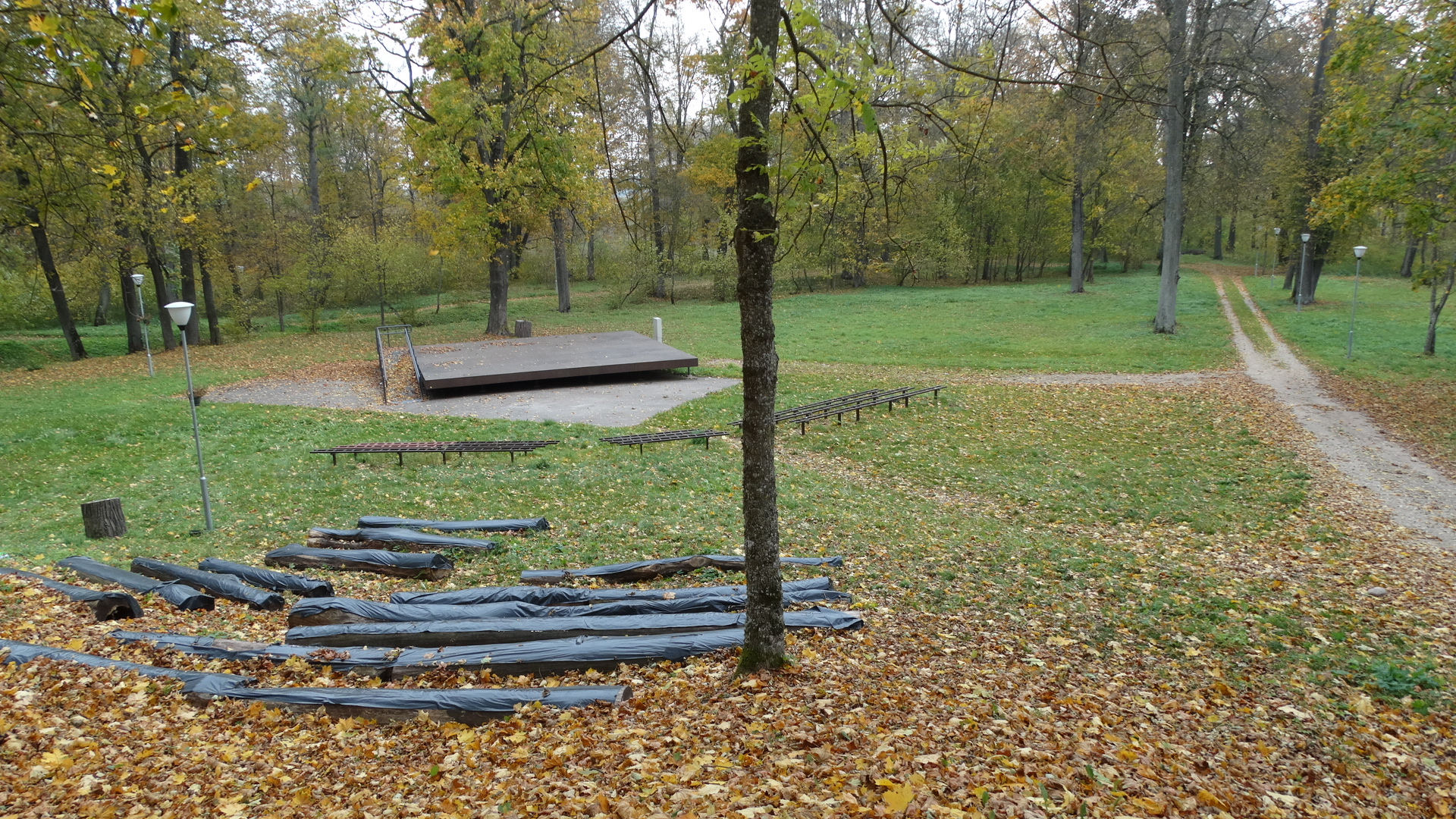 Park in Balbieriškis, Prienai District, Lithuania